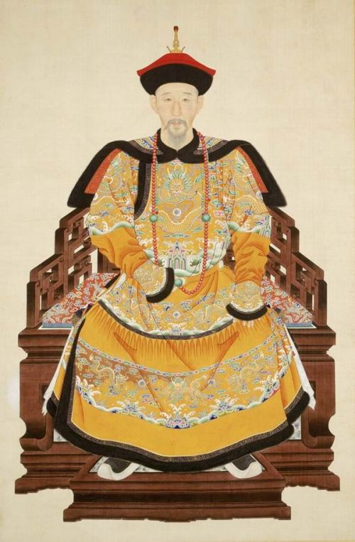 Portrait of Yinxiang, the First Prince Yi (1686-1730), now a part of Smithsonian Collections Acquisition Program